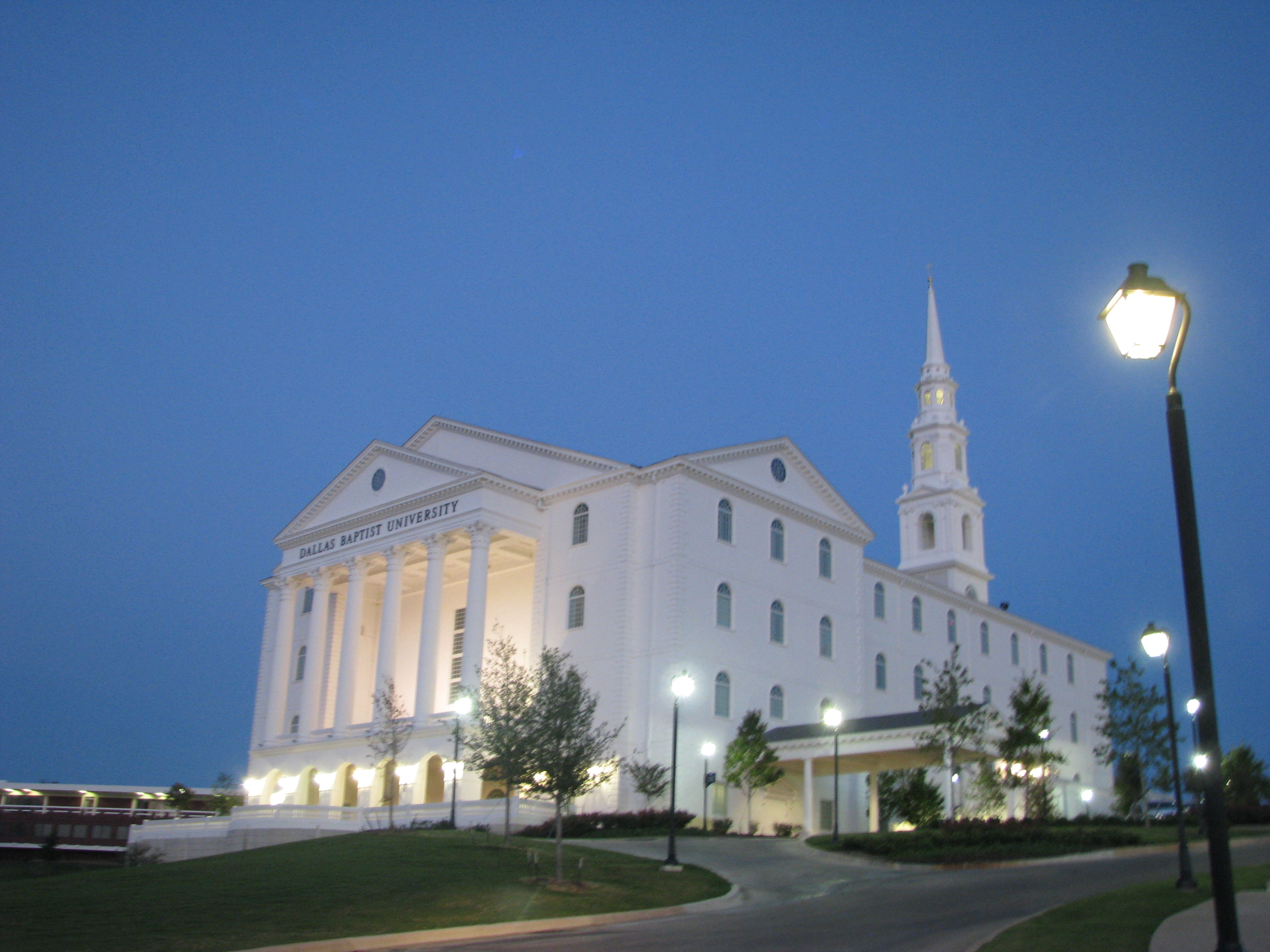 Pilgrim Chapel, Dallas Baptist University